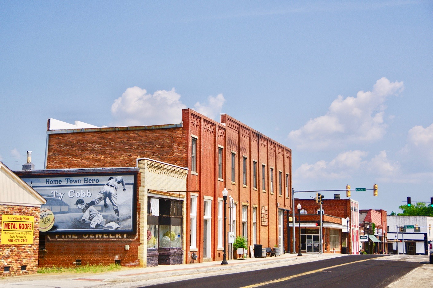 Businesses along Church Street (SR 17) in Royston, Georgia, United States.